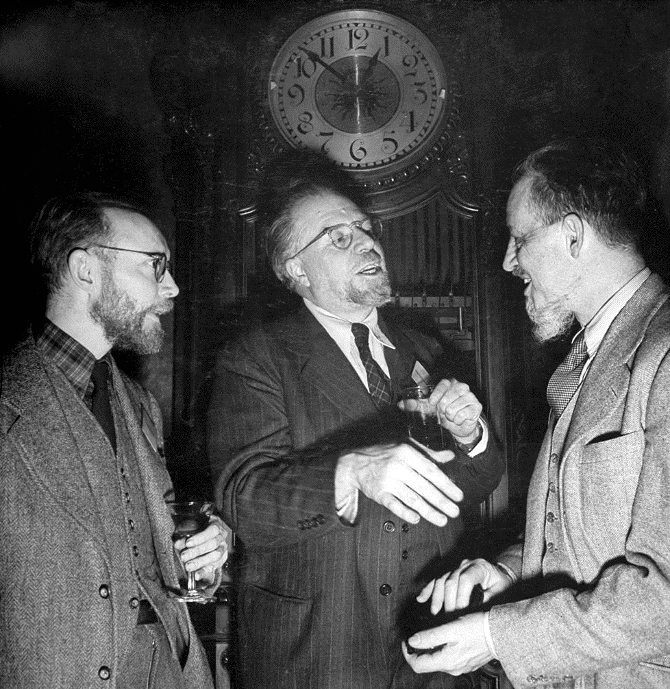 Photograph of three members of the Baker Street Irregulars — Fletcher Pratt, Christopher Morley and Rex Stout